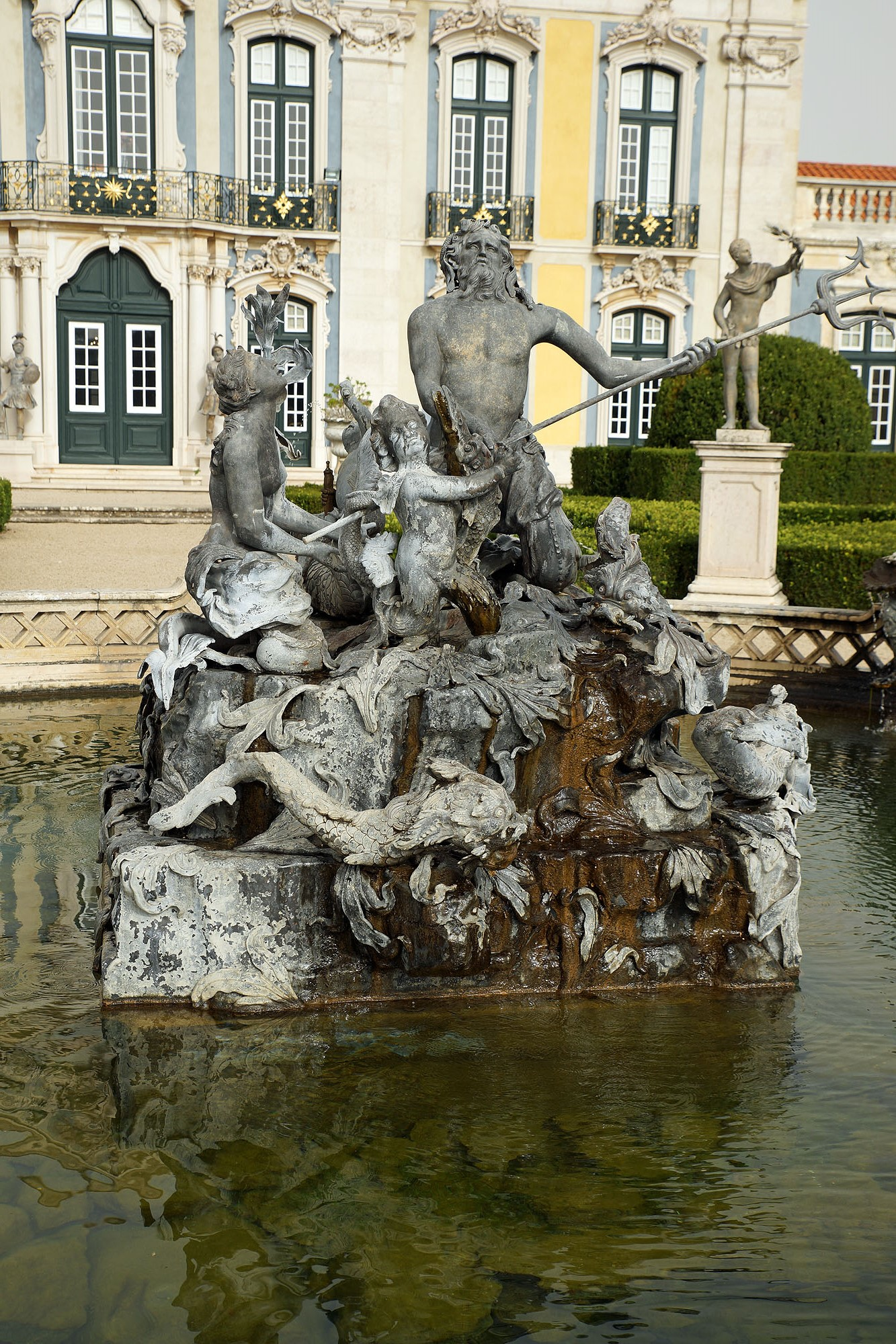 QUELUZ, Portugal QUELUZ (Wiki): Queluz – Palacio: National Palace of Queluz: PORTUGAL (Wiki)